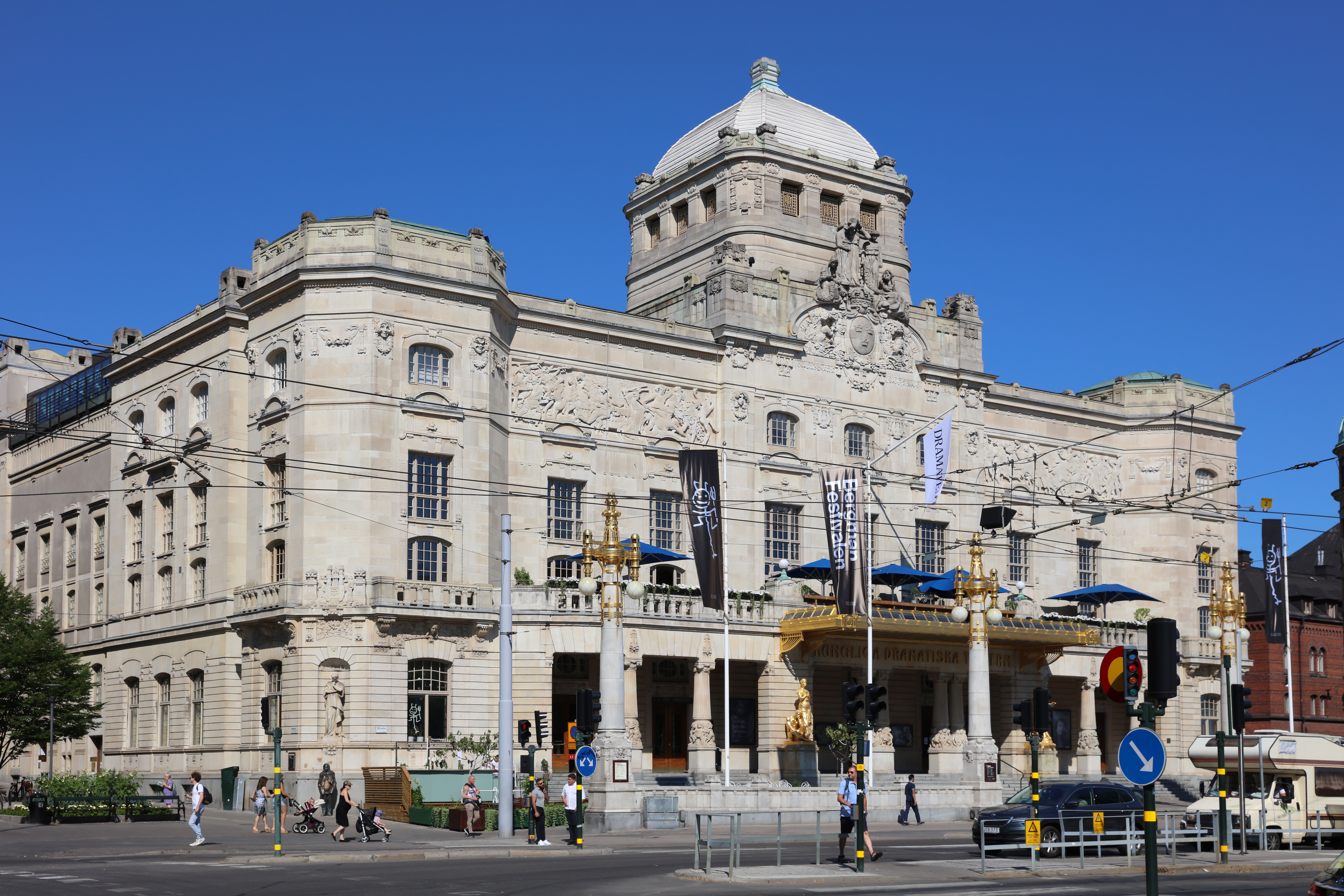 The Royal Dramatic theater at Nybroplan in Stockholm, Sweden.